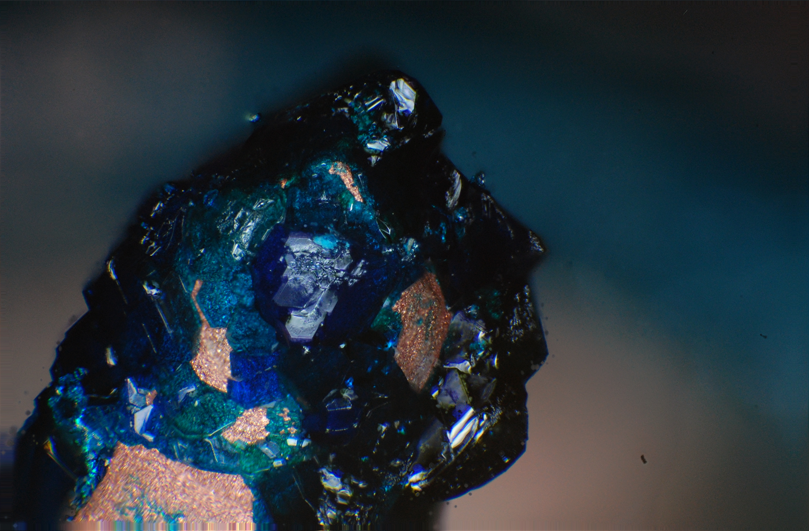 Verdigris on copper wire (micro-photography).